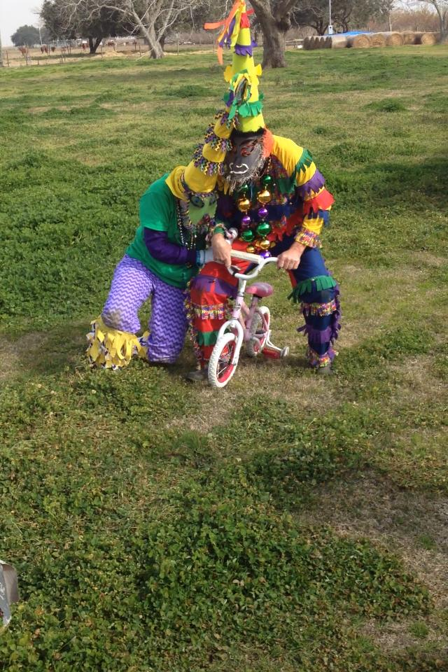 Two South Cameron Mardi Gras "steal" a bike from a young child.